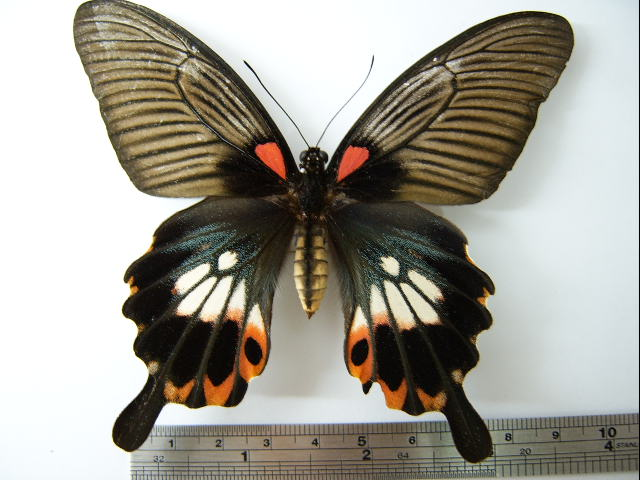 Kerry took this picture at his house on 16 July 2005 Scientific name: Papilio memnon heronus ♀ (back) Date of collection: 28 III 1997 Place of collection: Taipei city, Taiwan